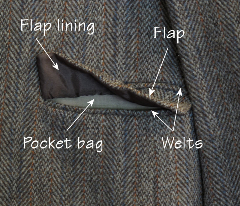 Tailored flap pocket, showing the parts of the pocket